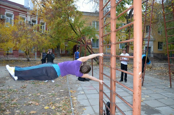 Human flag.